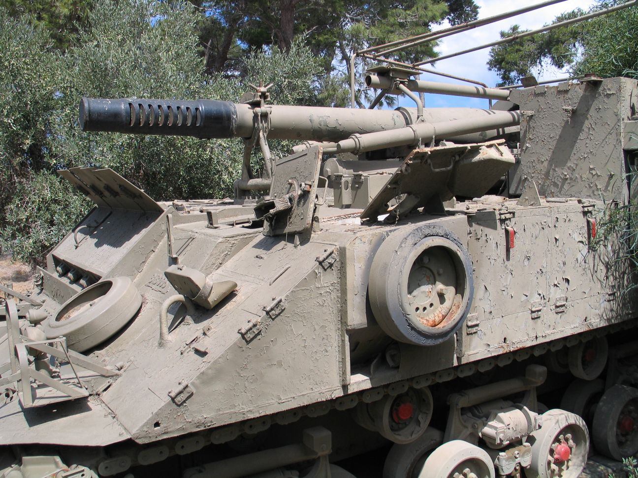 Israeli M-50 155 mm self-propelled howitzer on M4 Sherman chassis in Beyt ha-Totchan, Zichron Yaakov, Israel.